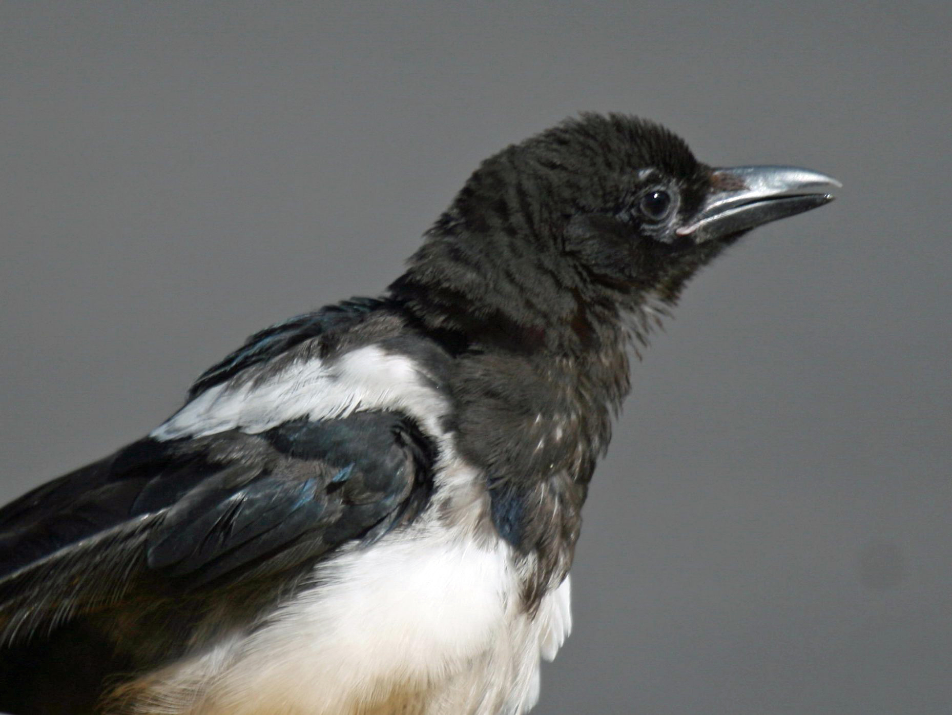 Black-billed Magpie (Pica hudsonia) at Jackson Hole, Wyoming